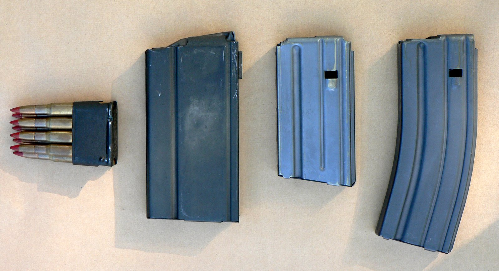 M1 Garand 8-round clip, M14 20-round magazine, AR-15/M16 20- and 30-round magazines